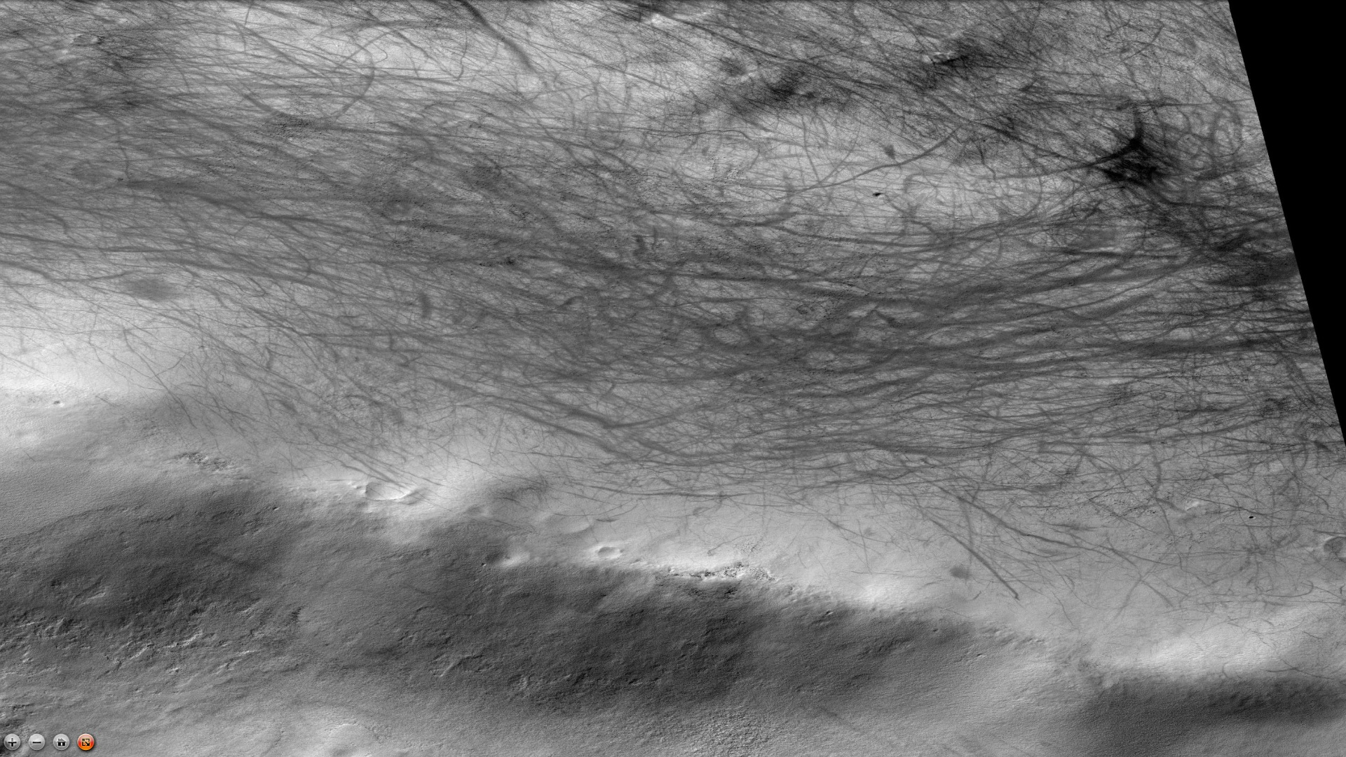 Eastern portion of Wells Crater showing dust devil tracks, as seen by cts